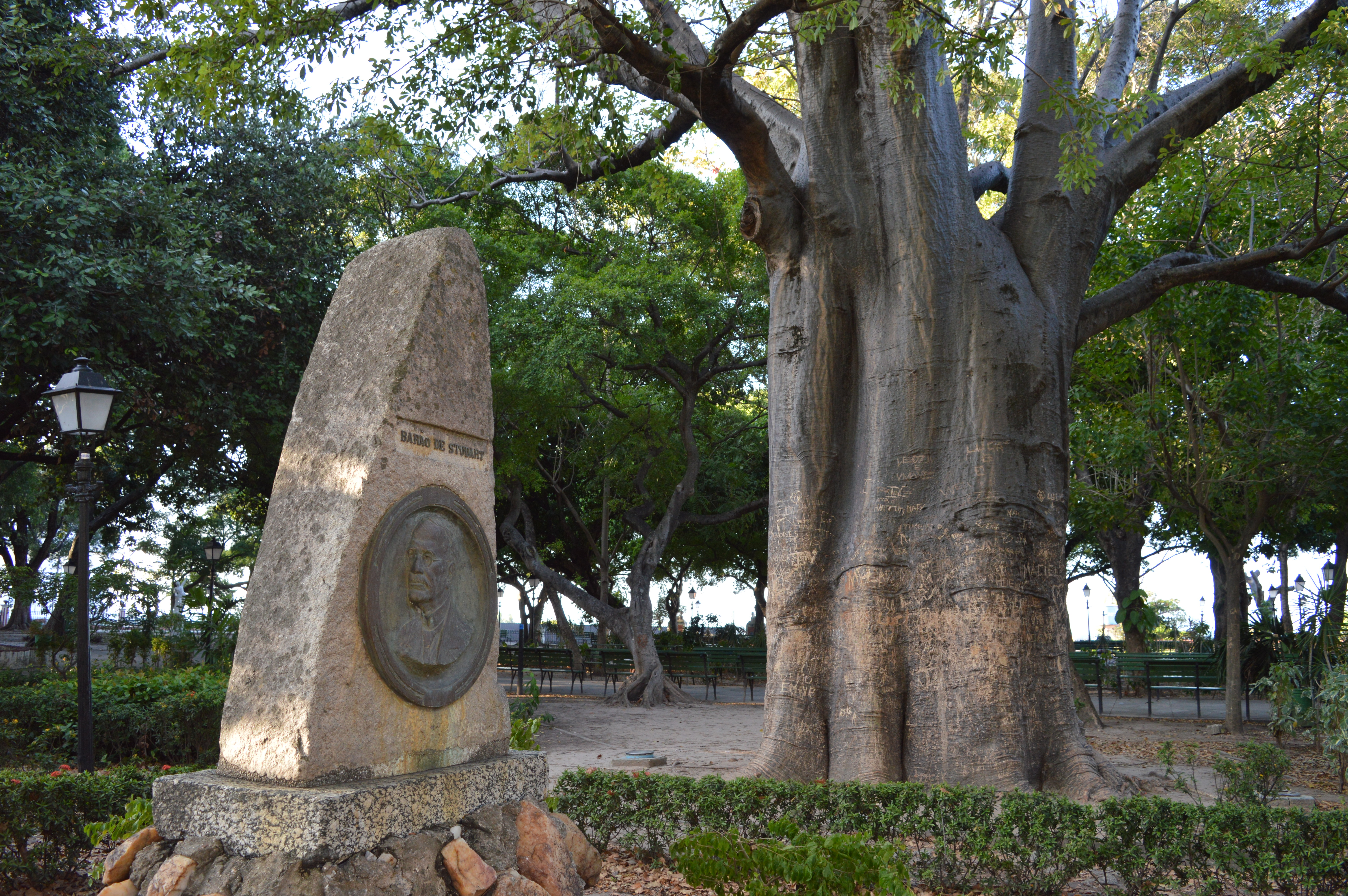 Public Promenade Area, former Square of the Martyrs, with baobab, a tree native to Africa, planted in 1910 by senator Pompeu, beside a monument in rock which pays homage to Baron de Studart, physician, historian and vice consul of the United Kingdom in Ceará.